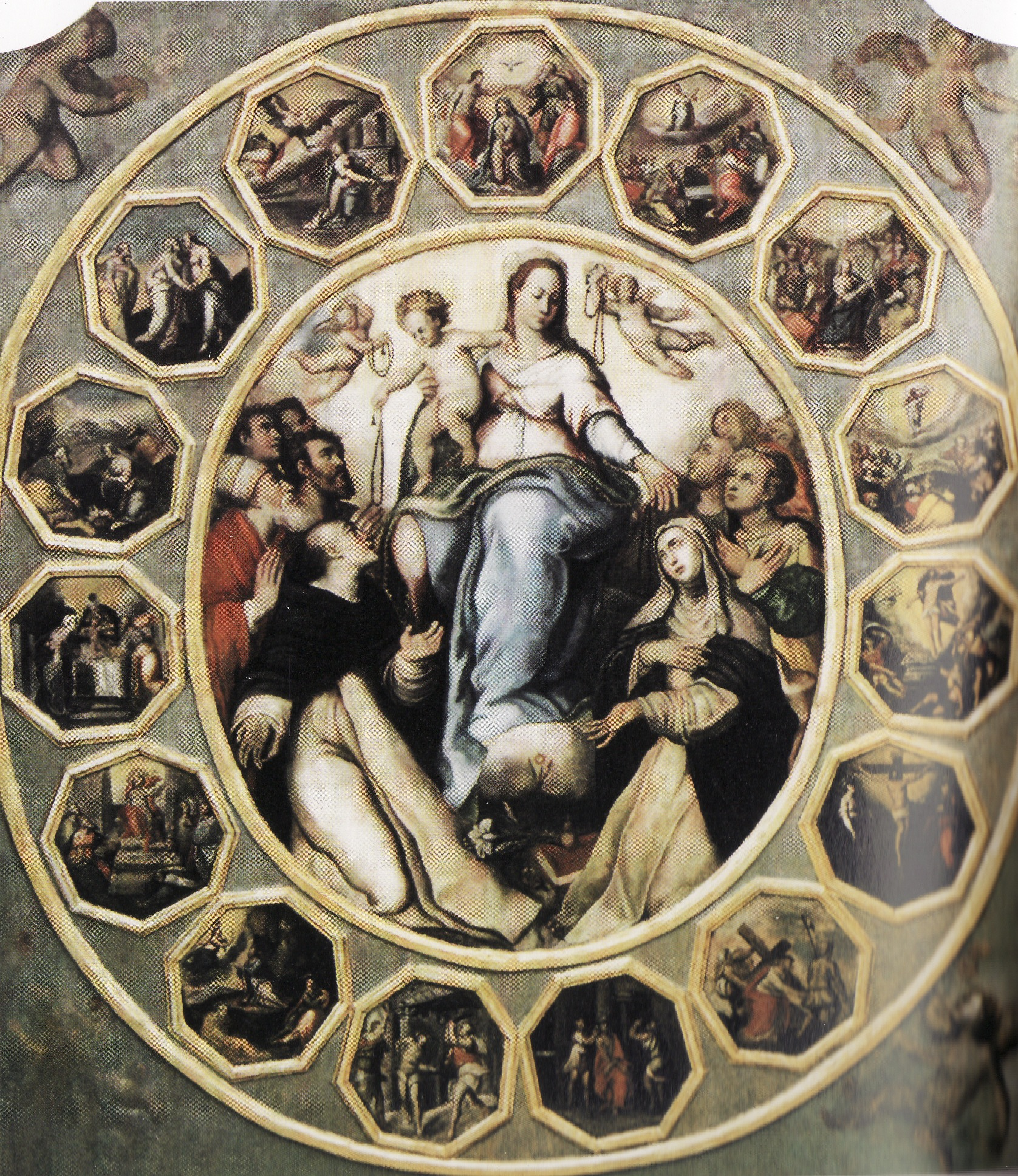 tondo